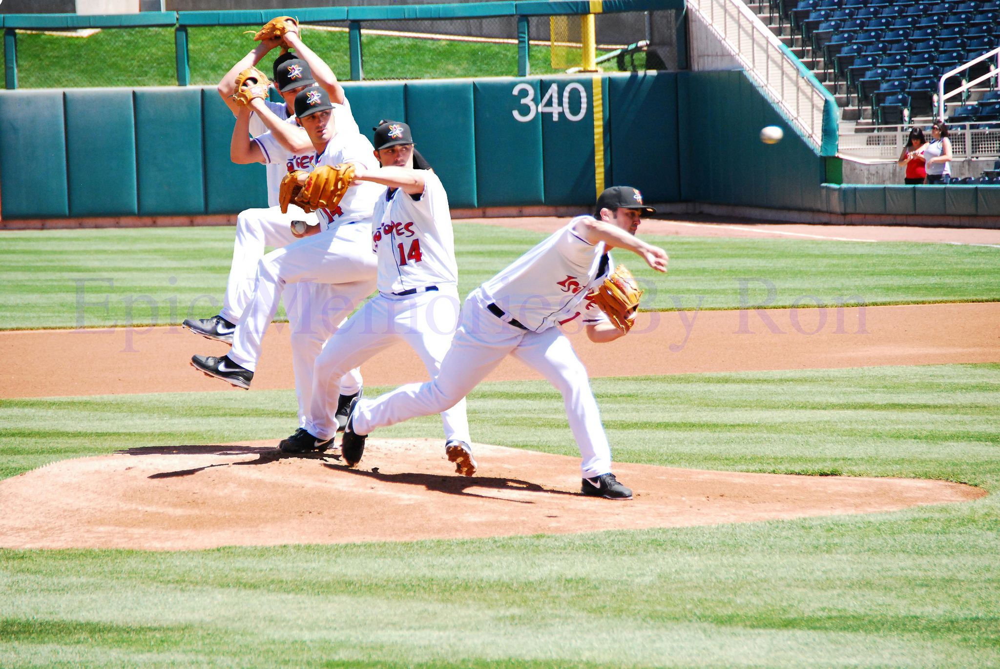 Matt Magill with the Albuquerque Isotopes